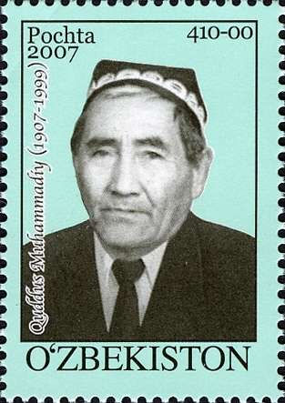 Stamps of Uzbekistan, 2007